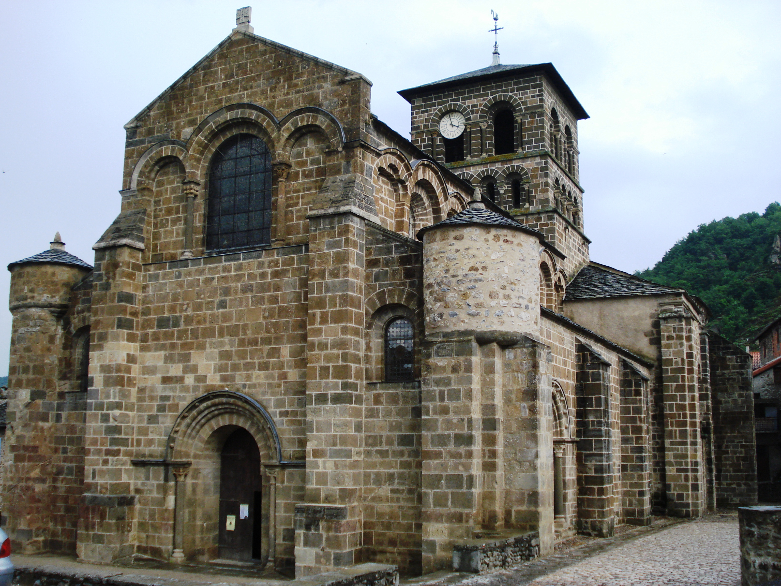 Chamalières-sur-Loire, l'église, façade